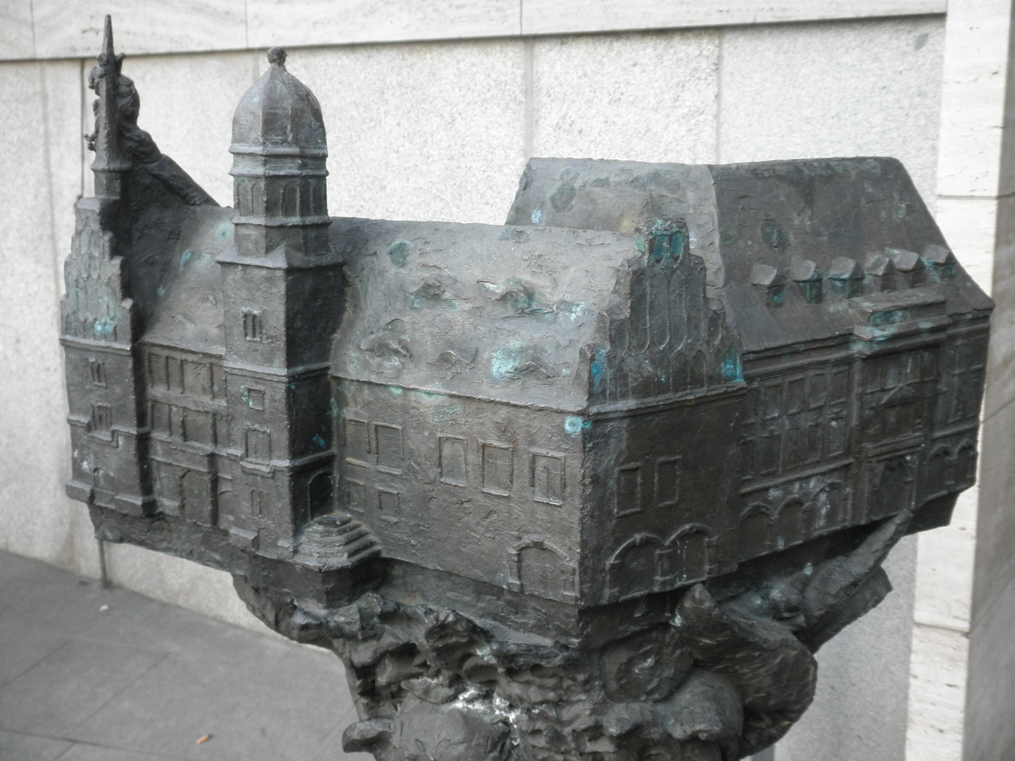 Sculpture of Old Townhall in Halle in Saxony Anhalt